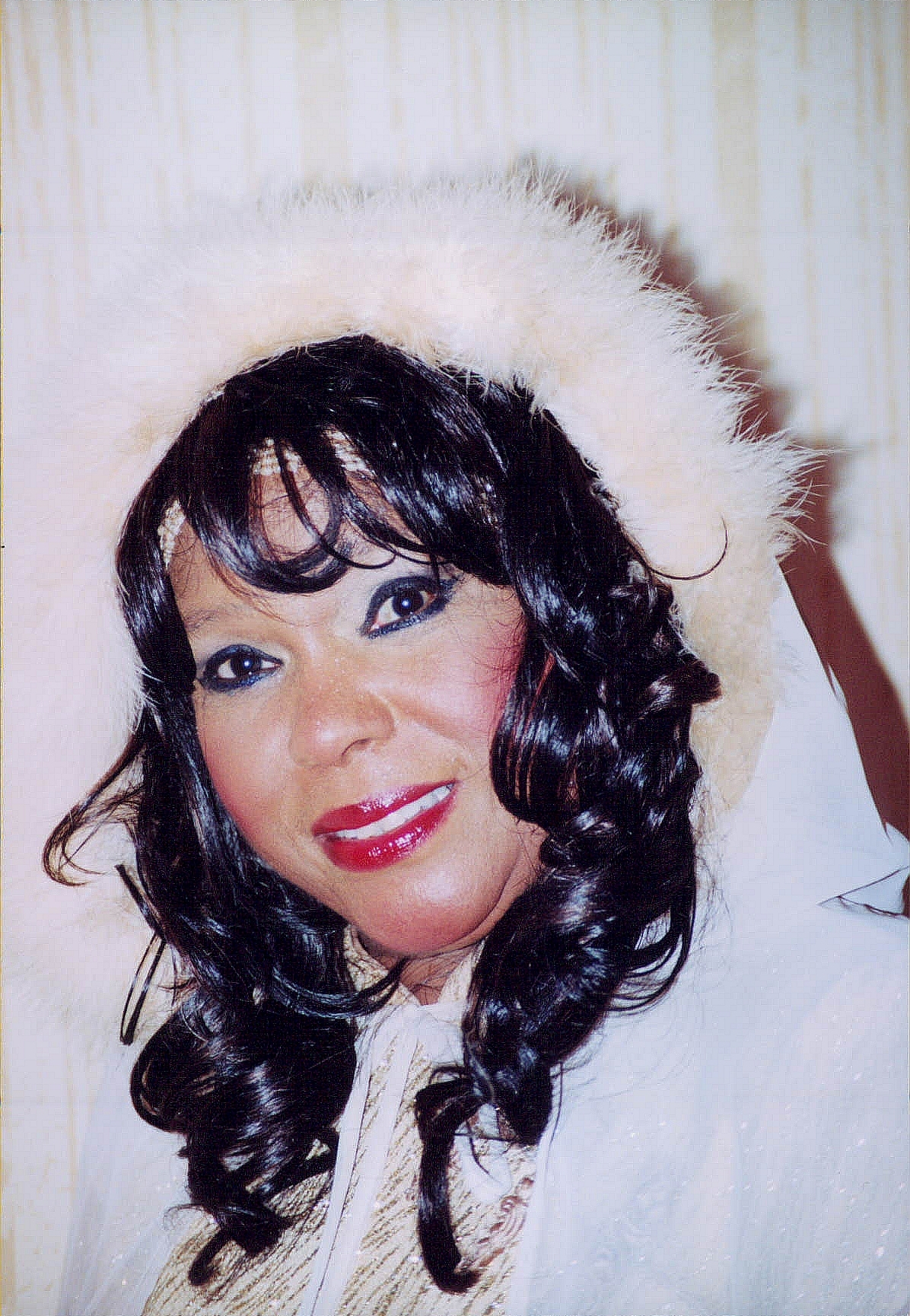 From Wash D.C. April 20, 2002 Best Buddy's charity event © copyright John Mathew Smith